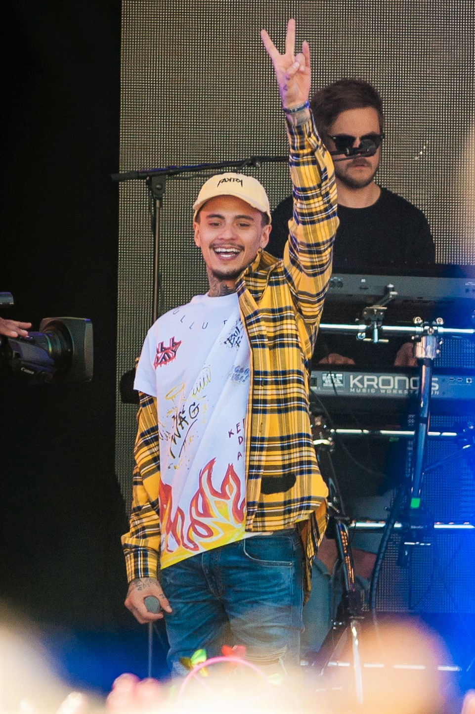 Finnish singer Mikael Gabriel performing at the 2017 YleXPop festival in Lahti, Finland.